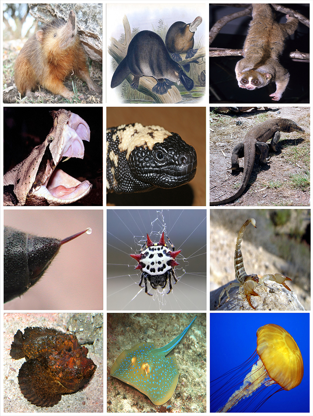 Venomous Animals gallery